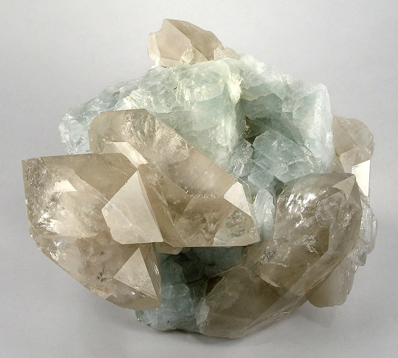 Albite, Quartz Locality: Dassu (Dasso; Dusso), Shigar Valley, Skardu District, Baltistan, Northern Areas, Pakistan (Locality at ) Size: large cabinet, 19.4 x 15.5 x 10.1 cm GEM ALBITE crystals on Quartz OK, this one boggled minds at Denver. It fooled me, and it fooled numerous people...nobody guessed blue albite crystals. The identity was finally settled by analysis at the University of Arizona. It seems to be a one-of-a-kind. I have seen no others of this material while waiting for this one to be cleaned and returned to me, and I think its a very important rarity in that it is an extremely impressive (unprecedented?) example of an extremely common species. The major crystals reach 5 x 4 cm in size and the slender, most finely formed crystal in the middle is about 3.5 cm tall, very 3-dimensional. A very pretty specimen.